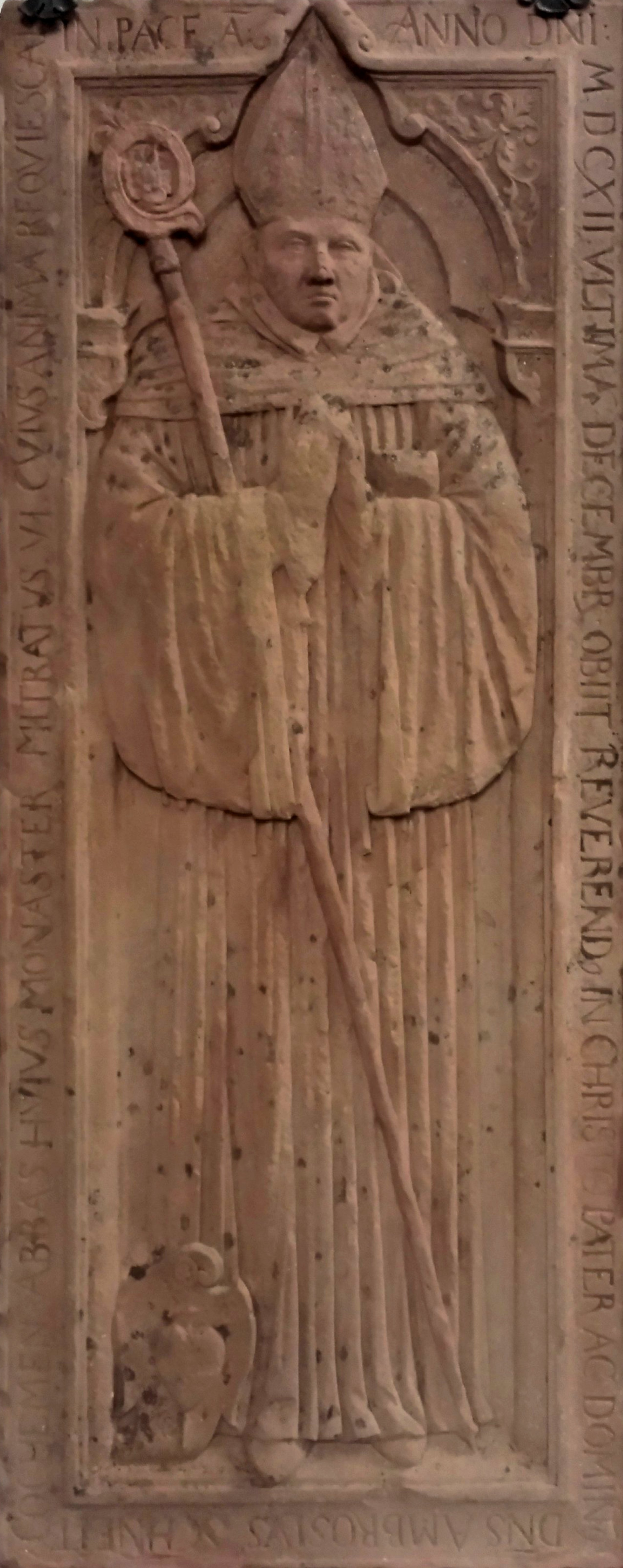 Gravestone of Abbot Ambrosius Schneidt from Cochem in Himmerod Monastery